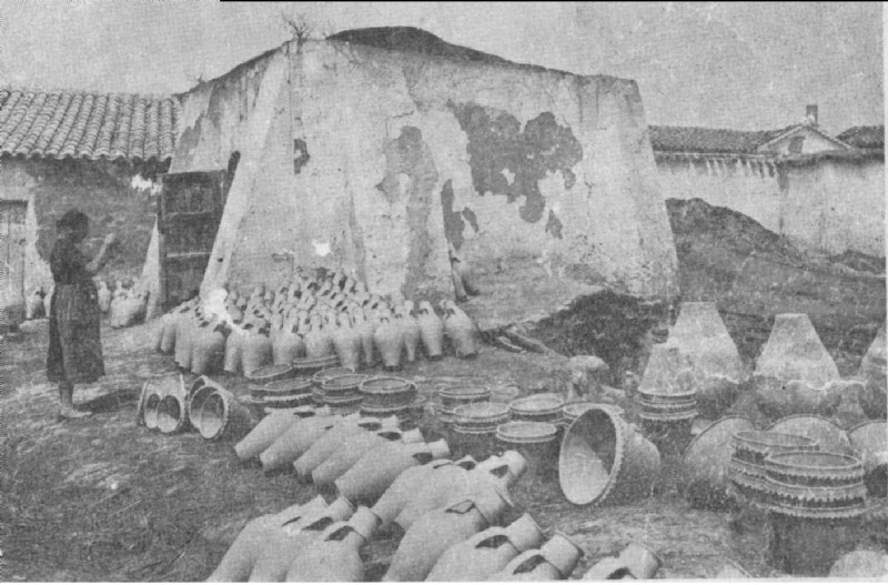 Pieces of pottery drying in the sun next to the arabic oven of an alfar of Mota del Cuervo (Cuenca, Spain). Unknown author. Public domain for more than 80 years of the publication of the work.